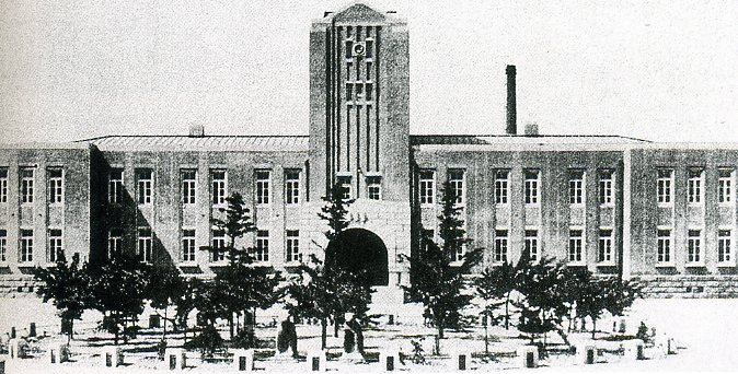 Consulate-General of Japan in Longjing, in Manchukuo era